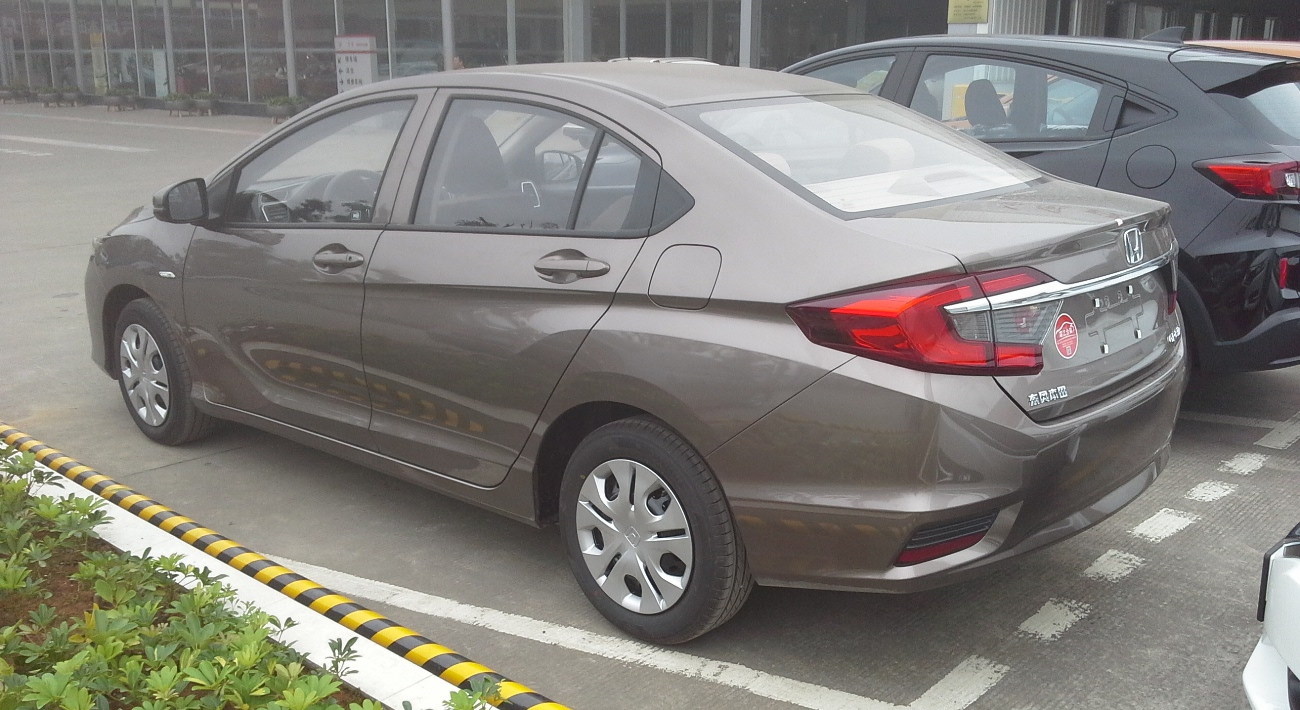 Honda Greiz photographed in Zhanjiang, Guangdong province, China.